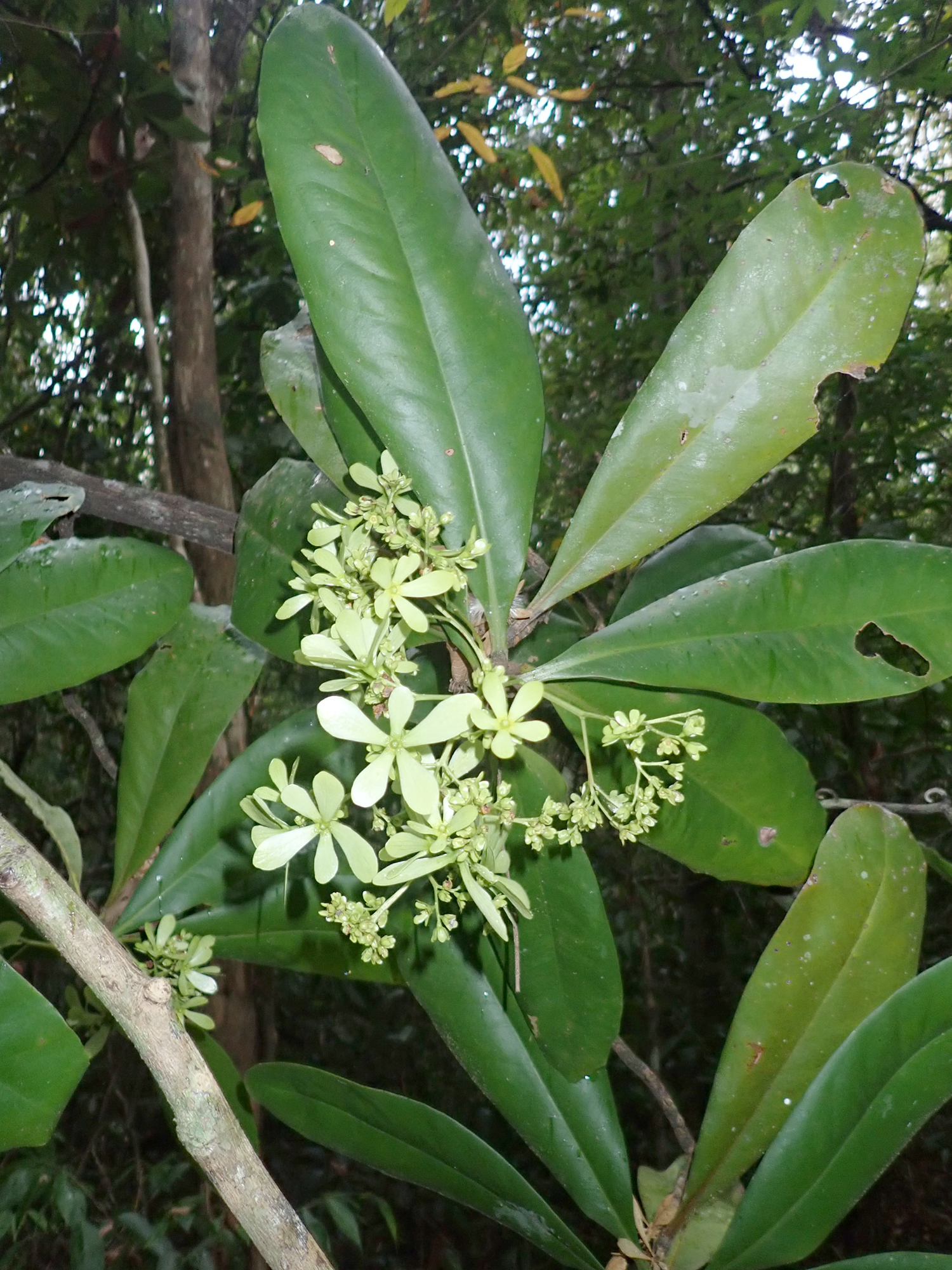 Ancistrocladus tectorius flowers in Cat Tien National Park